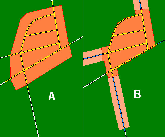 Ribbon development (A-no, B-yes)